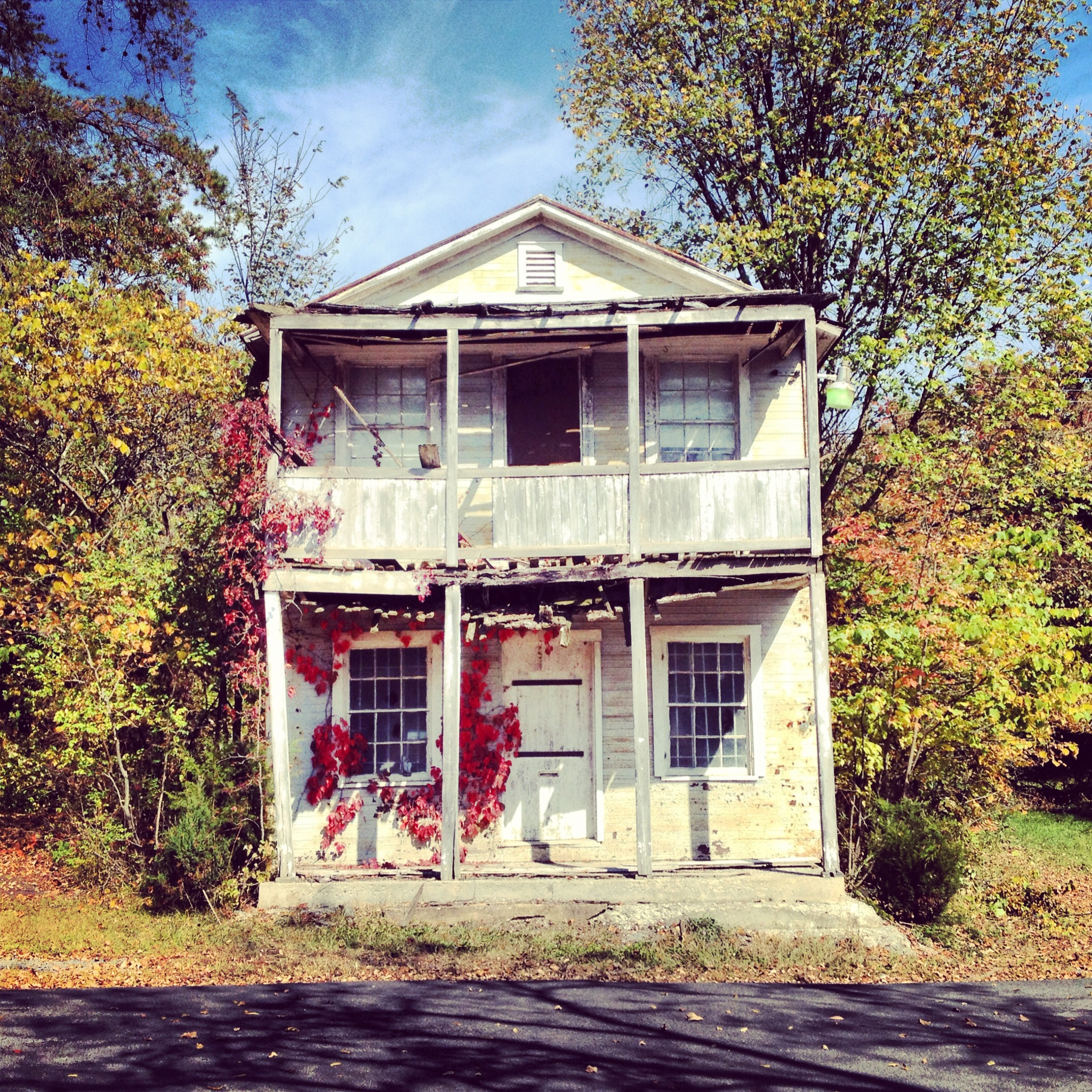 The Old Shanks Store and Post Office, built around 1900, is a former general store and post office in Shanks, West Virginia, United States. The building is located located at the intersection of Allen Hill Road (West Virginia Secondary Route 50/7) and the Northwestern Pike (U.S. Route 50. Photographed by Justin A. Wilcox of Washington, D.C.